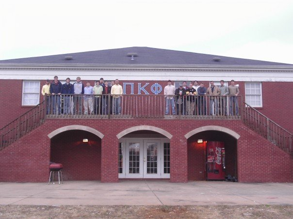 This is a picture of the Delta Epsilon (Jacksonville State) chapter house of the Pi Kappa Phi fraternity.